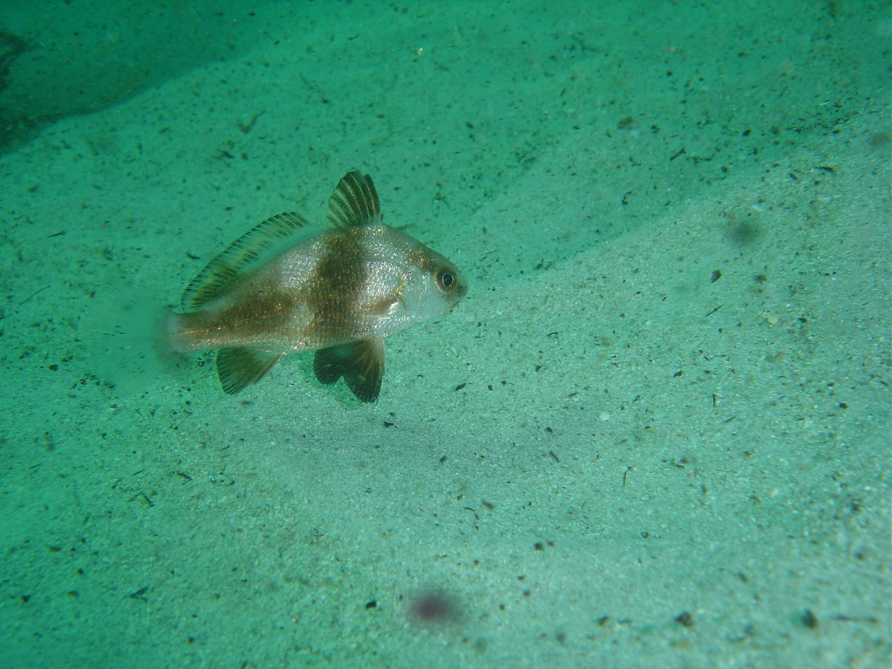 Castle Rocks, Cape Peninsula.